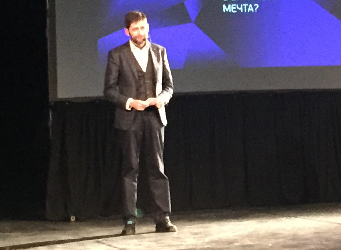 Kristian Takov